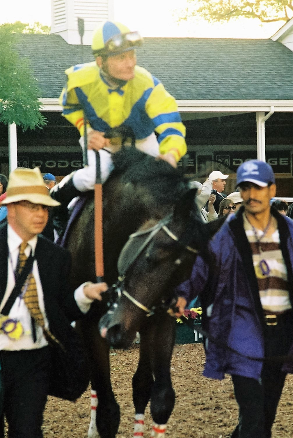 Calvin Borel pats Street Sense before the 2007 Breeders' Cup Classic at Monmouth Park